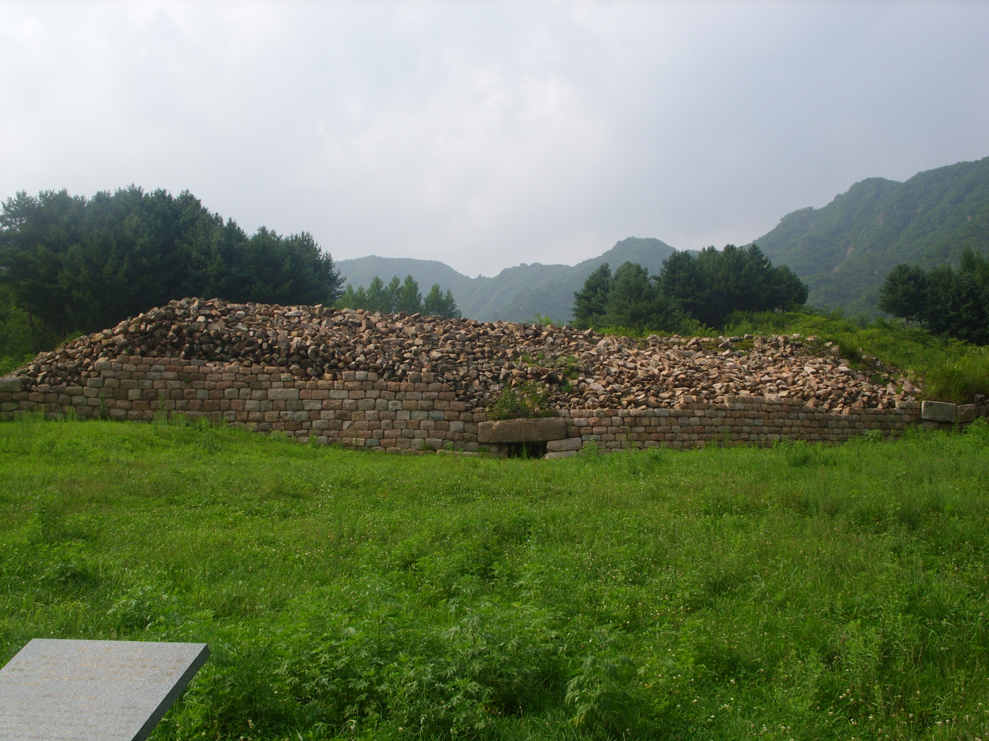 Hwando Mountain Fortress' South ruined castle